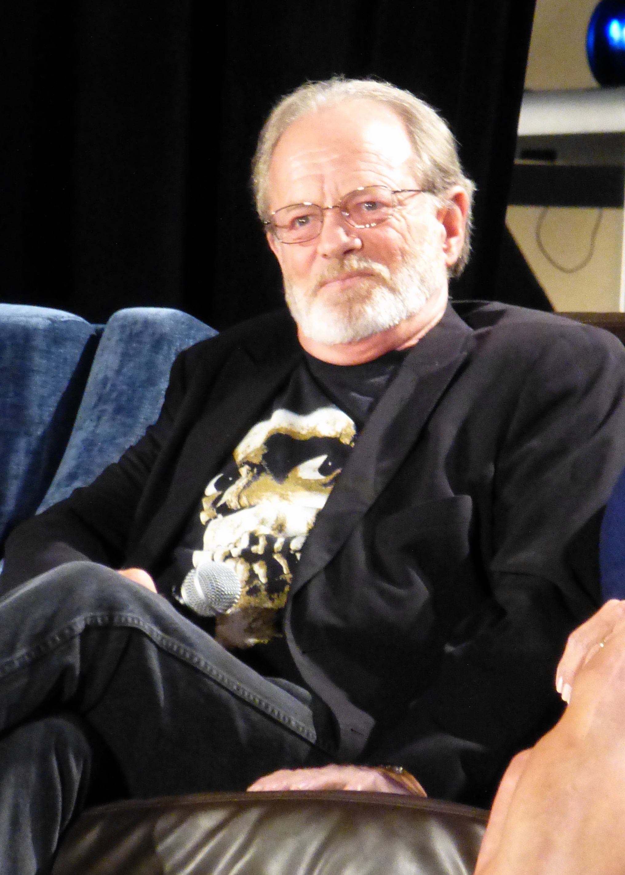 Dan Hicks is Good Old Reliable Jake Panel with cast and crew of both Evil Dead 1 and 2, hosted by Bruce Campbell Guests at the 2015 Wizard World Chicago.